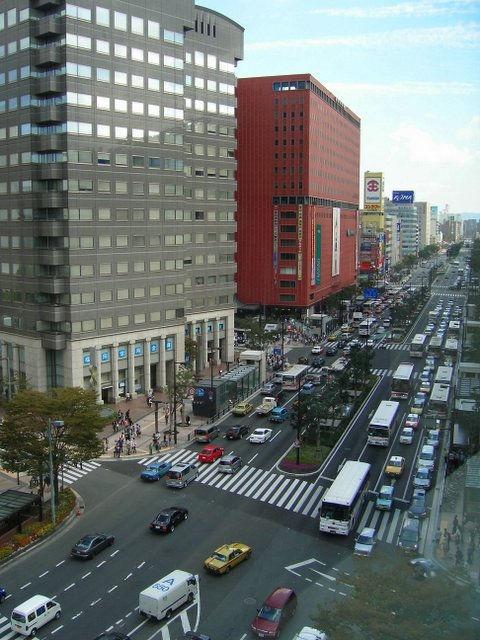 Watanabe-dori avenue in Tenjin, Fukuoka City